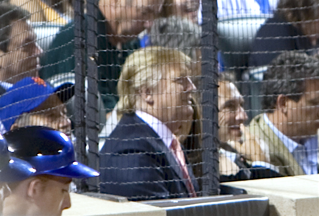 Donald Trump attending a baseball game between the Los Angeles Dodgers and the New York Mets at CitiField.